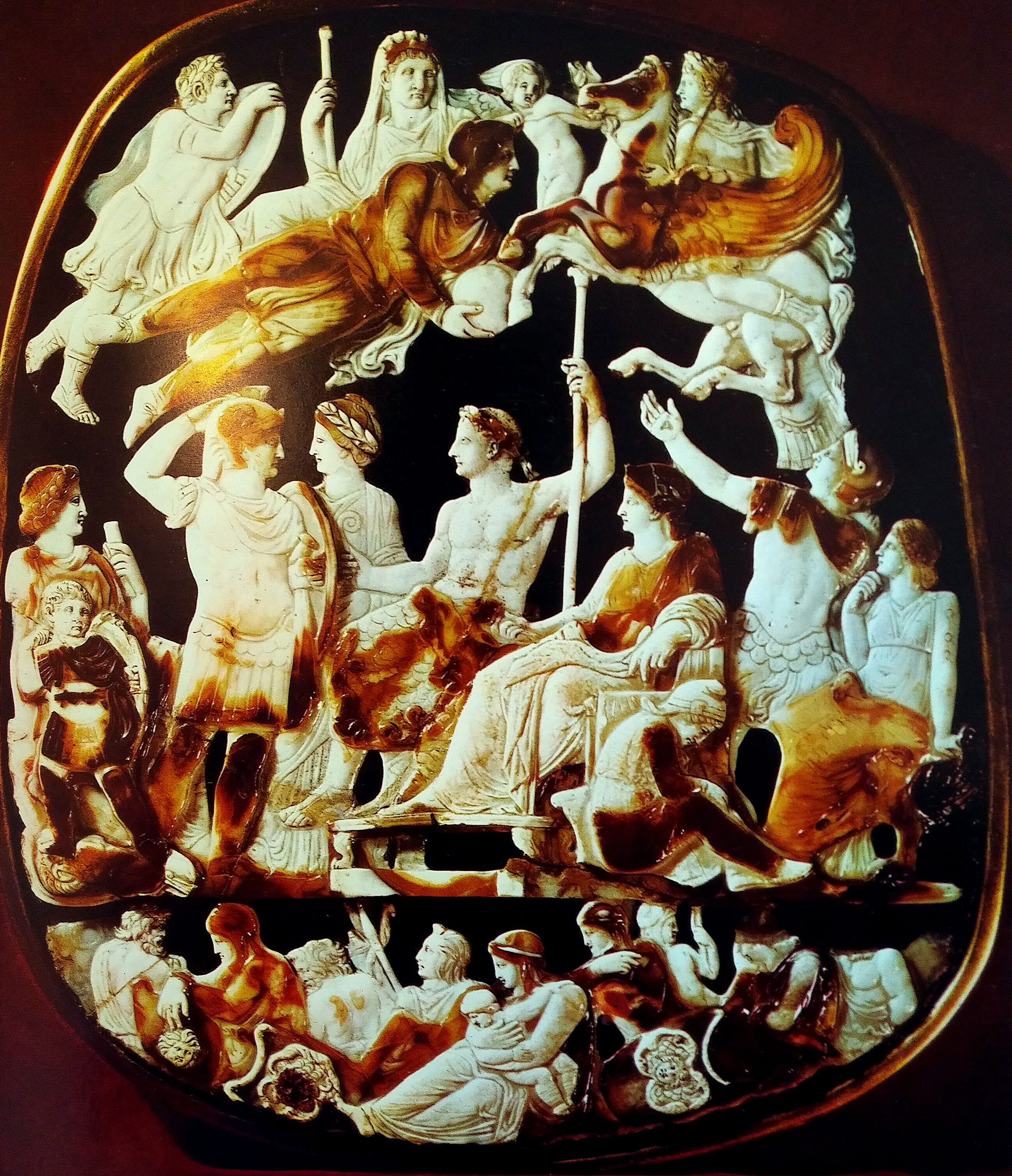 Le Grand Camée de France, the family of Germanicùs in front of Emperor Tiberius and Livia